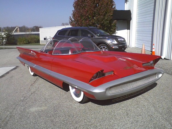 Bob Butts Lincoln Futura replica as seen in Ohio November 7th 2009.